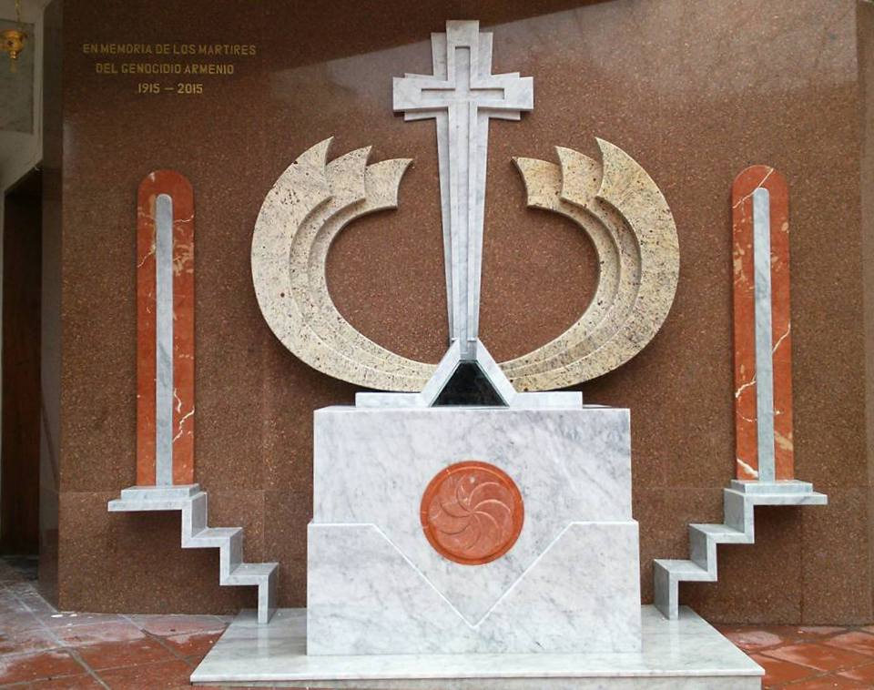 Armenian Genocide Memorial in Argentina, Buenos Ayres, St Nareg Church, author Gagik Vardanyan